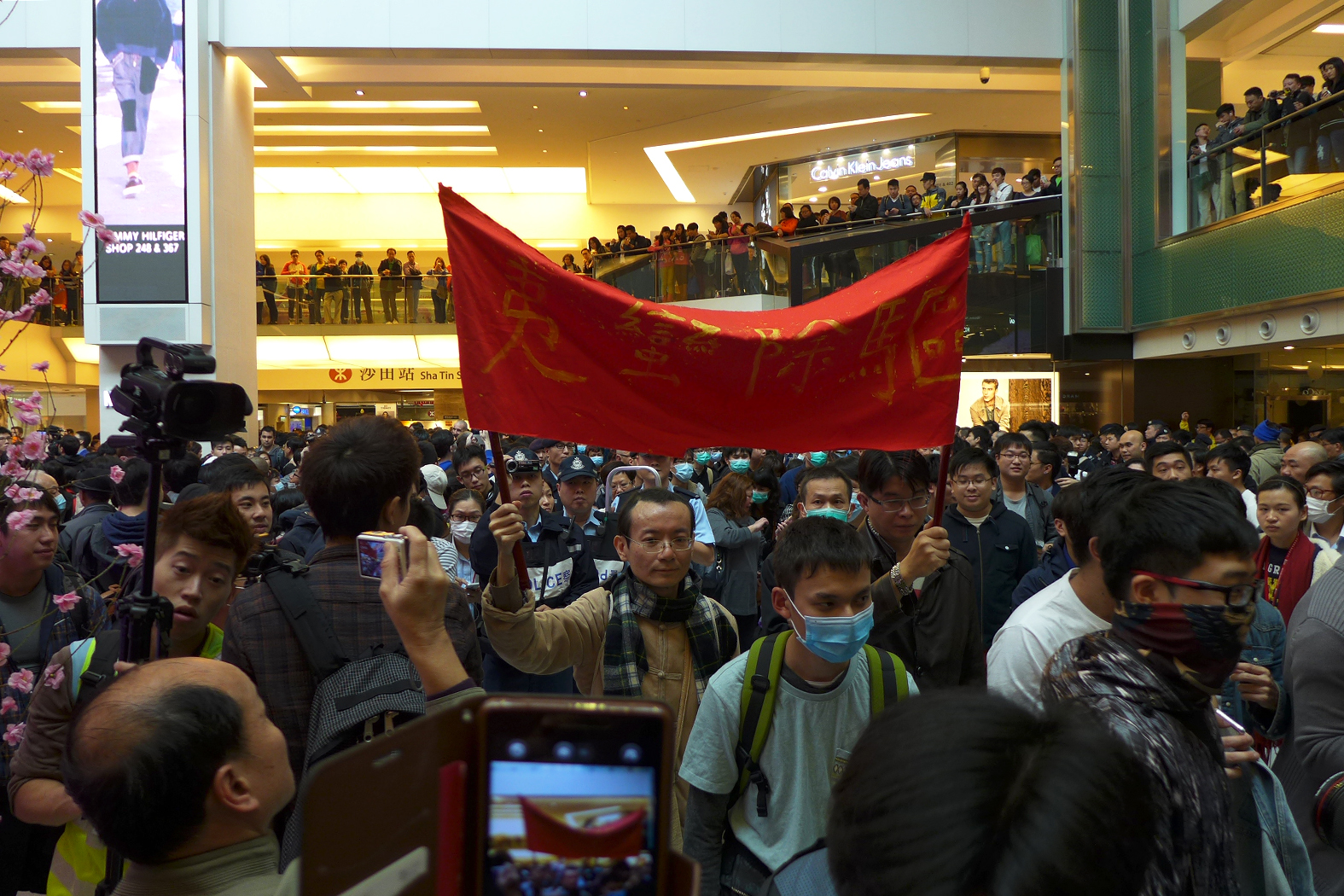 New Town Plaza Atrium protesters